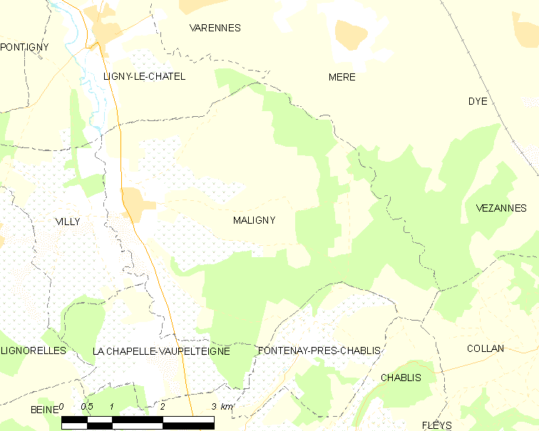 Map of French municipality Maligny